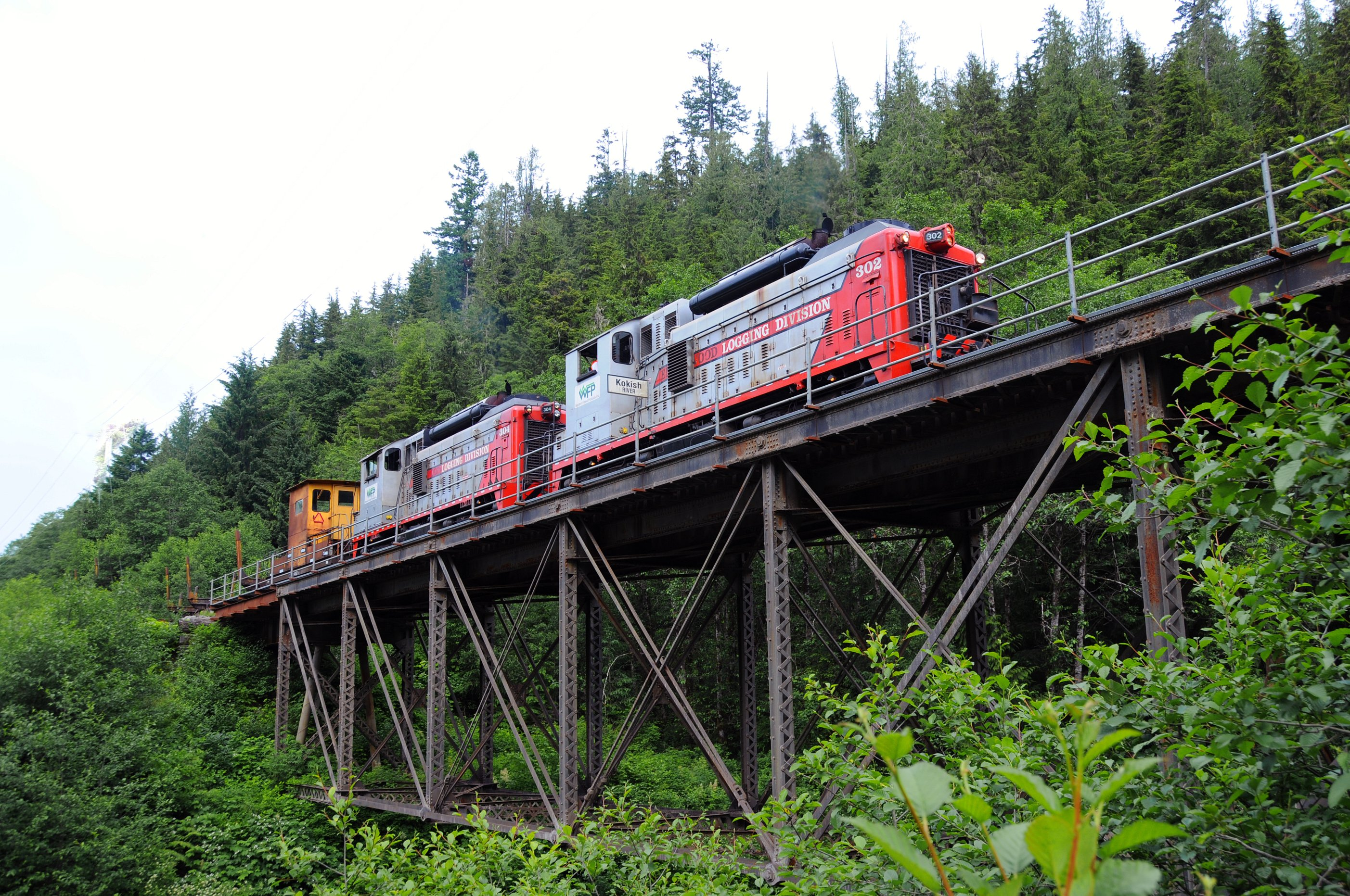 Crossing Kokish River heading South